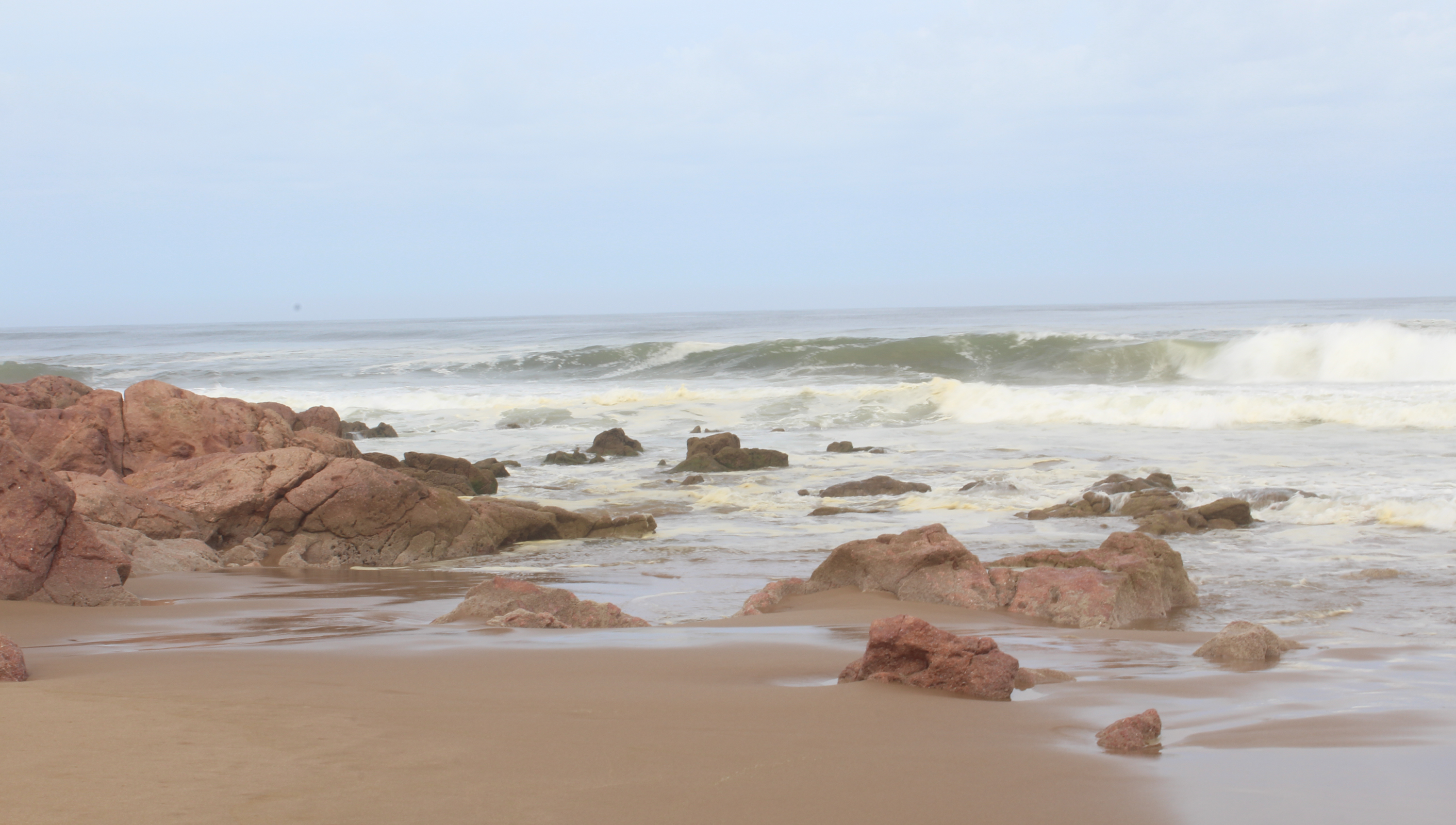 Aglou beach TIZNIT